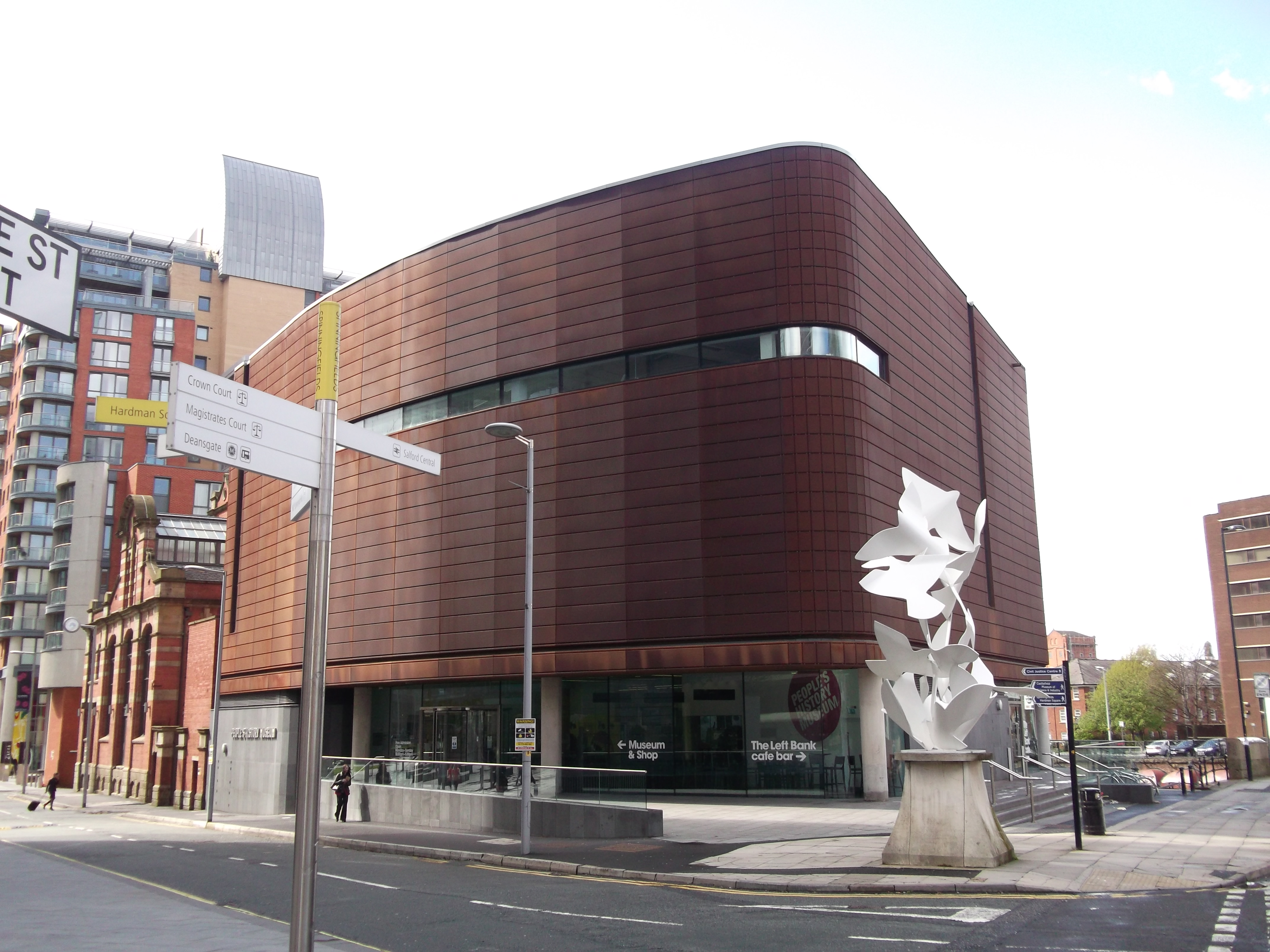 The frontage of the People's History Museum, Manchester